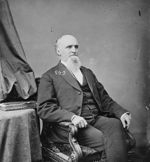 Orange Ferris (1814 - 1894), U.S. Representative from New York